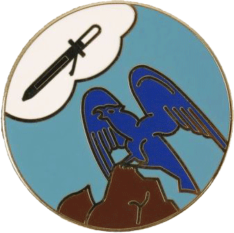 Insignia of the Military Academy of Air Force (France).